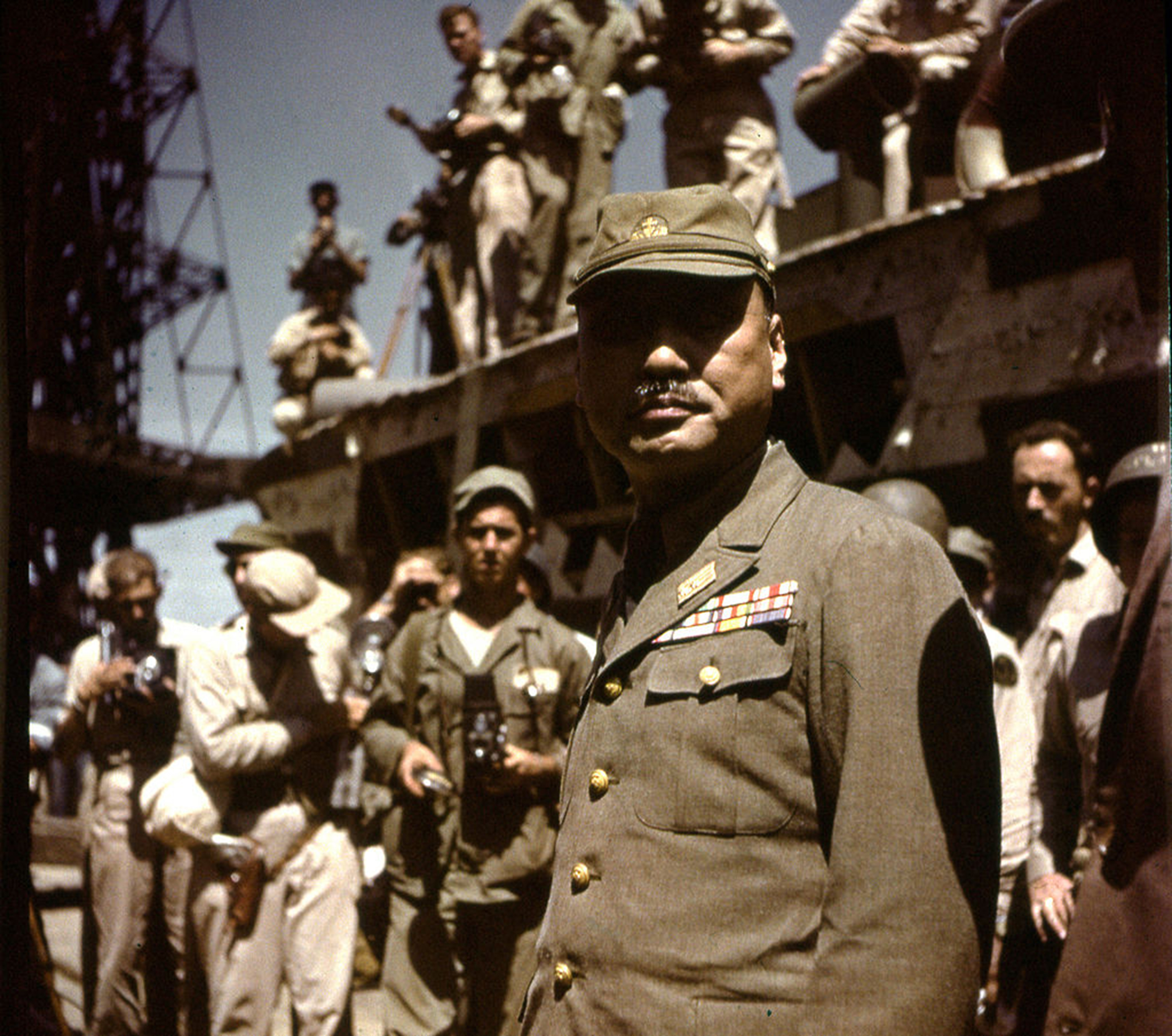 Japanese Vice Admiral Michitoro Tozuka, Yokosuka Naval Base Commander, photographed just after he had surrendered the facility to Rear Admiral Robert B. Carney, U.S. Third Fleet Chief of Staff, on 30 August 1945.